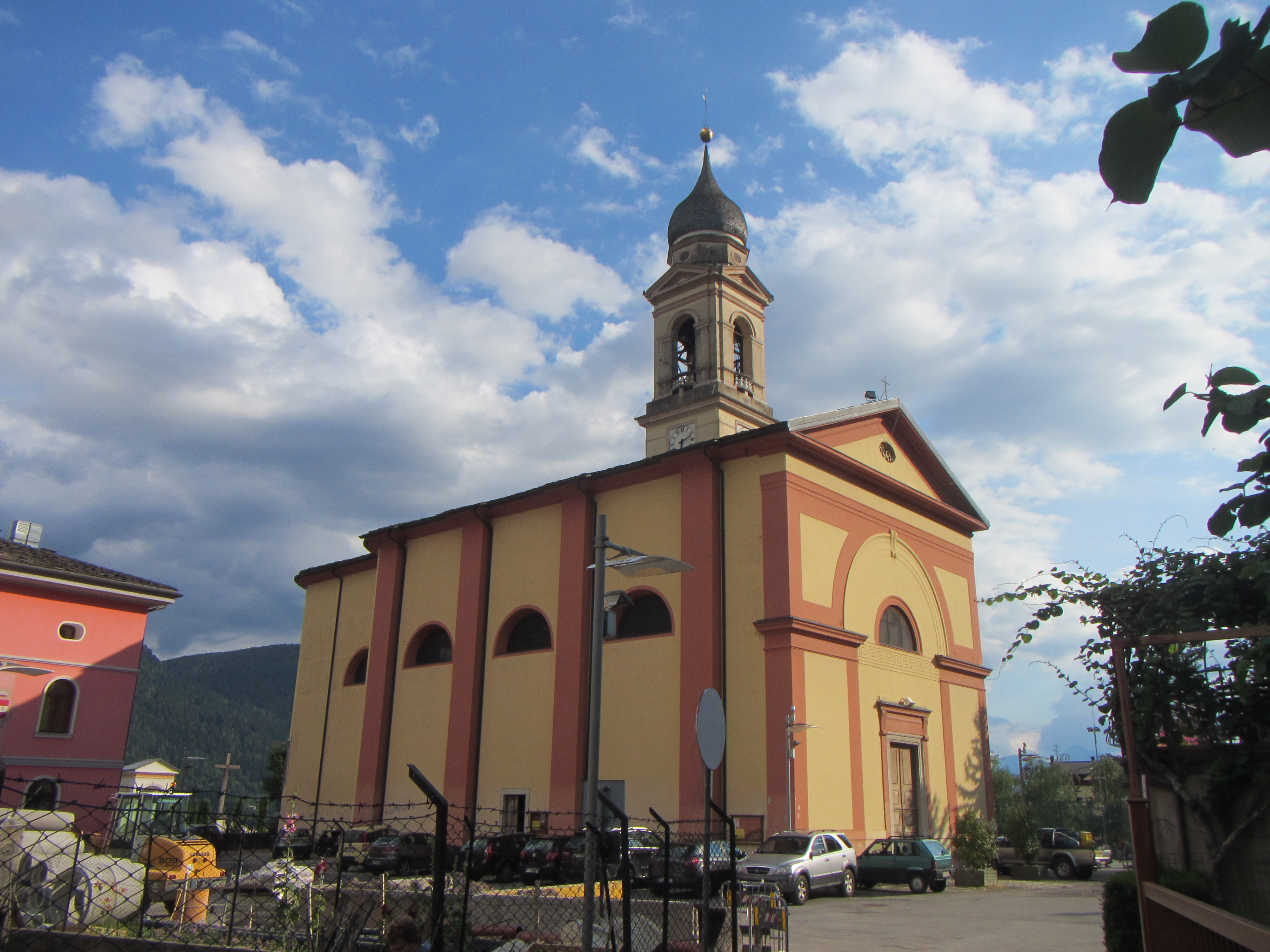 Faver - side view of the church